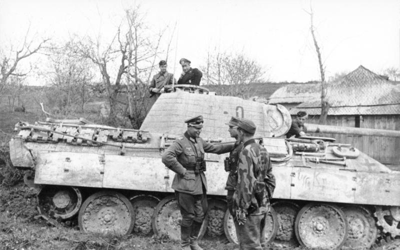 Colonel Karl Lorenz, Commander of the "Großdeutschland" regiment, meeting with the 5-man crew of a Panzer V "Panther" (Turret Number "0") in south Russia; KBZ HG south Ukraine (Army Group South Ukraine, Communications and Meetings Center)